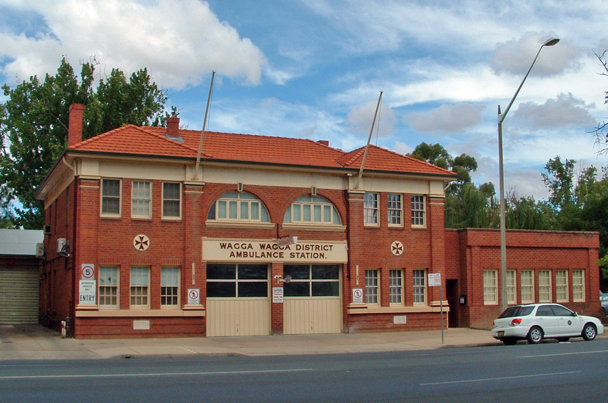 Wagga Wagga District Ambulance Station. Est. 1929